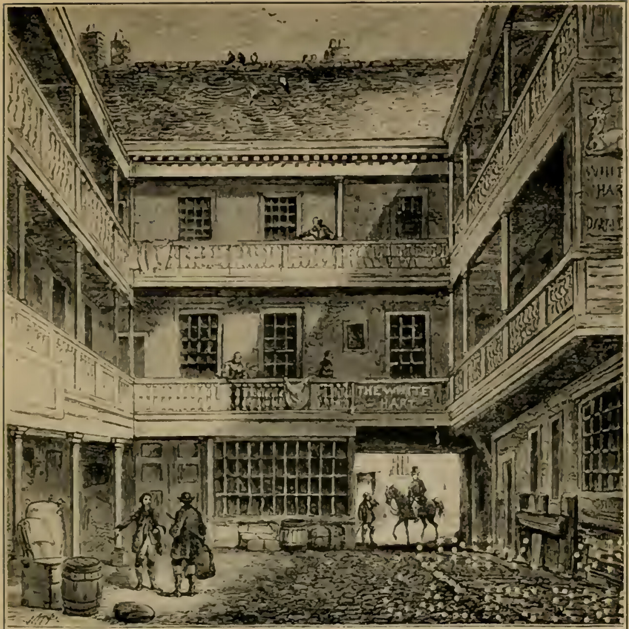 The White Hart, in Southwark, London from the yard. The guest rooms are on the upper floors with the stabling below.